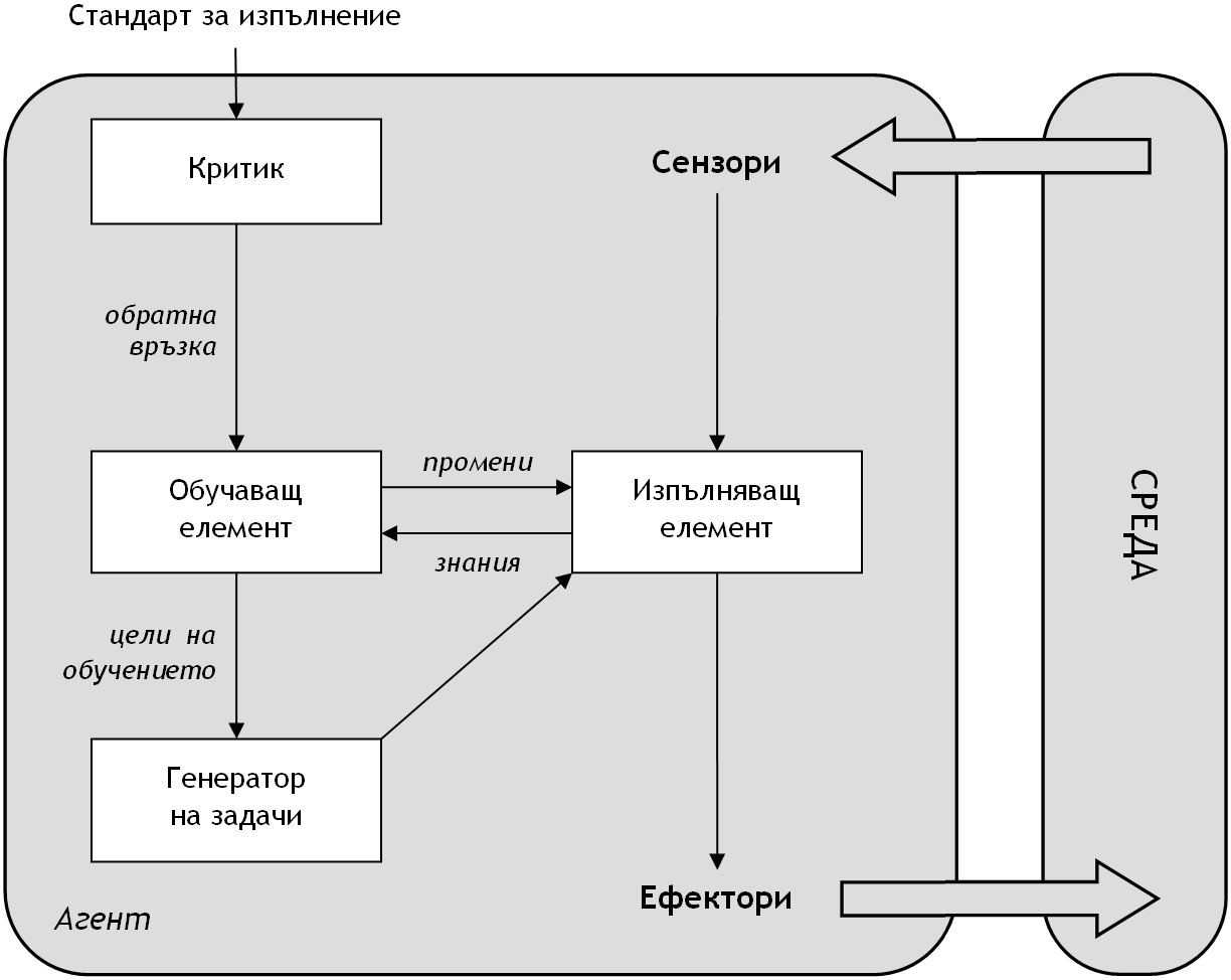 Diagram of a learning intelligent agent. In Bulgarian.